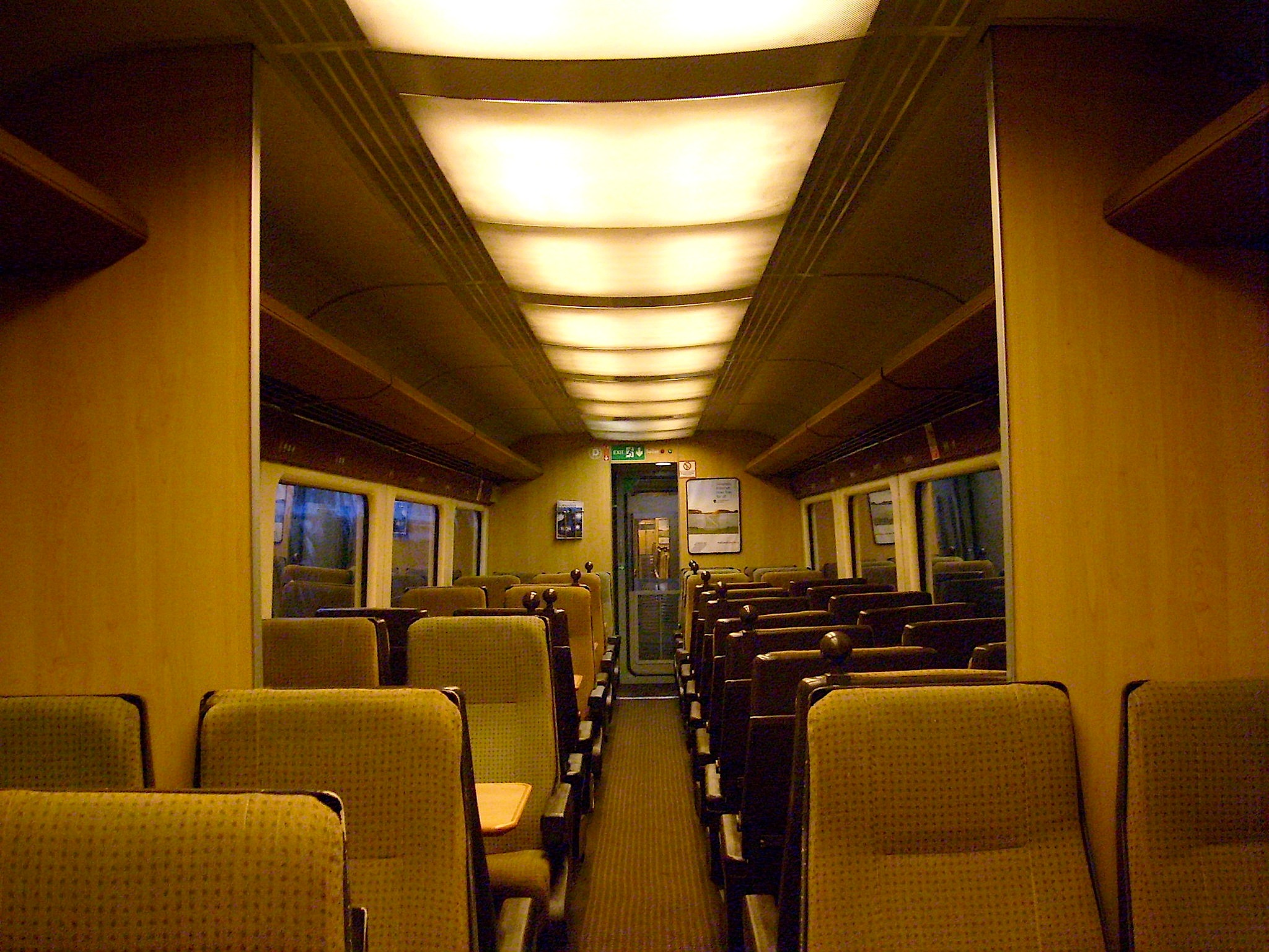 A half internal view of refurbished Standard Class aboard a National Express East Coast Mark 3 Trailer Standard vehicle